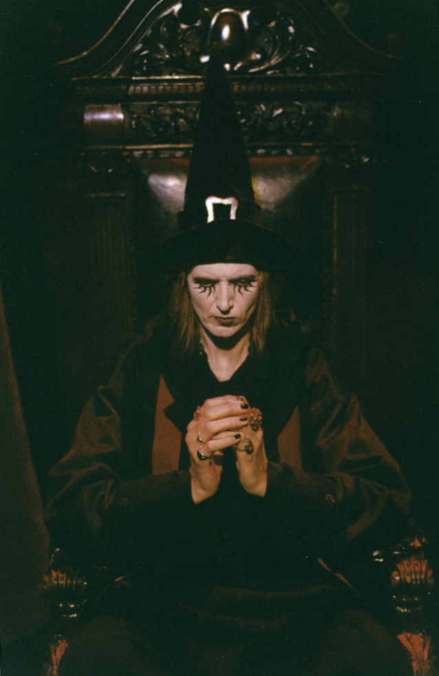 iodine Jupiter (Victor Wennerkvist) during a poetry reading, Stockholm 2010